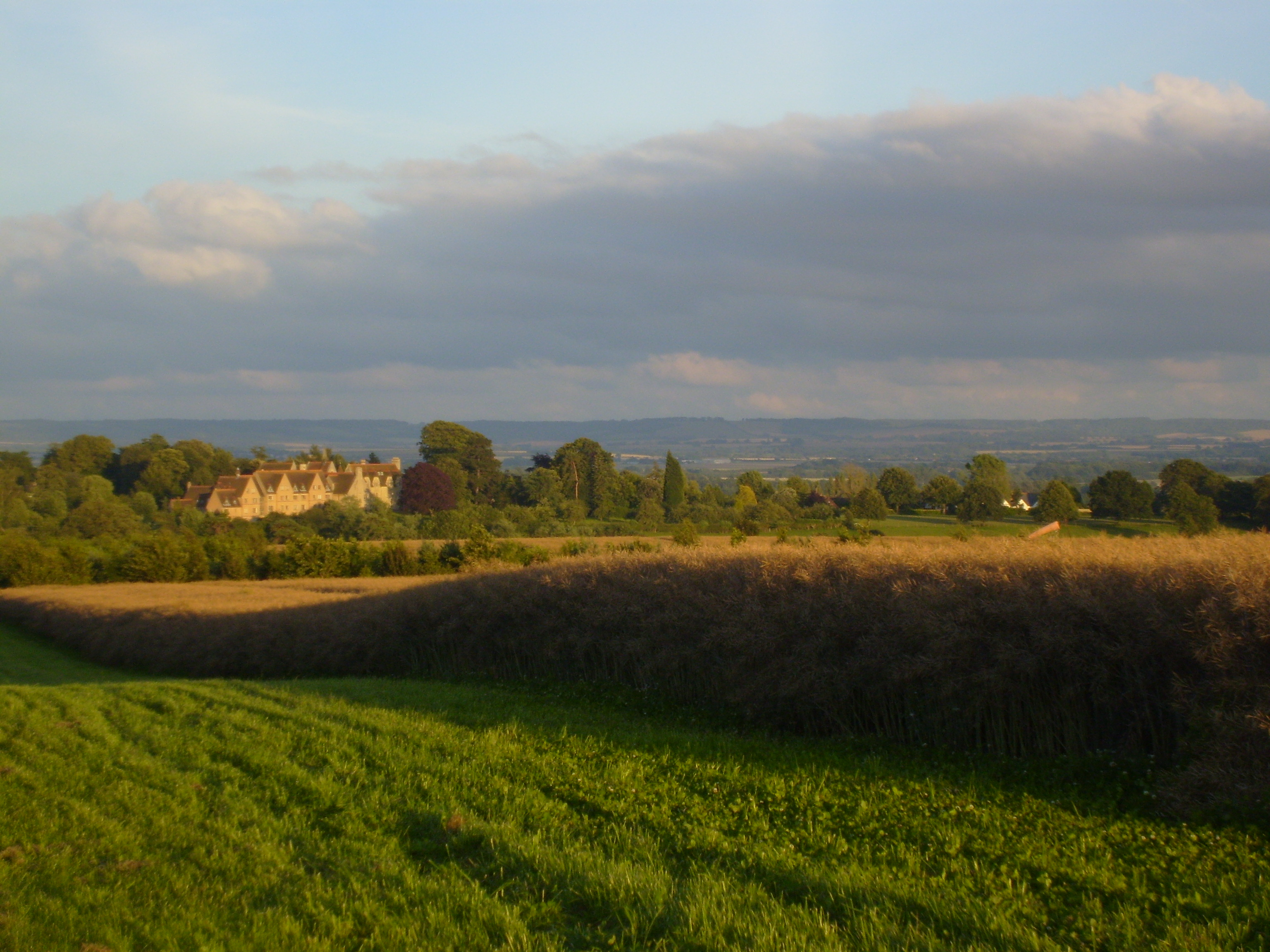 EdwardKeene, my camera, no URL, but can be found on facebook here: will be used fairly, and is available to others, nothing extra to add!